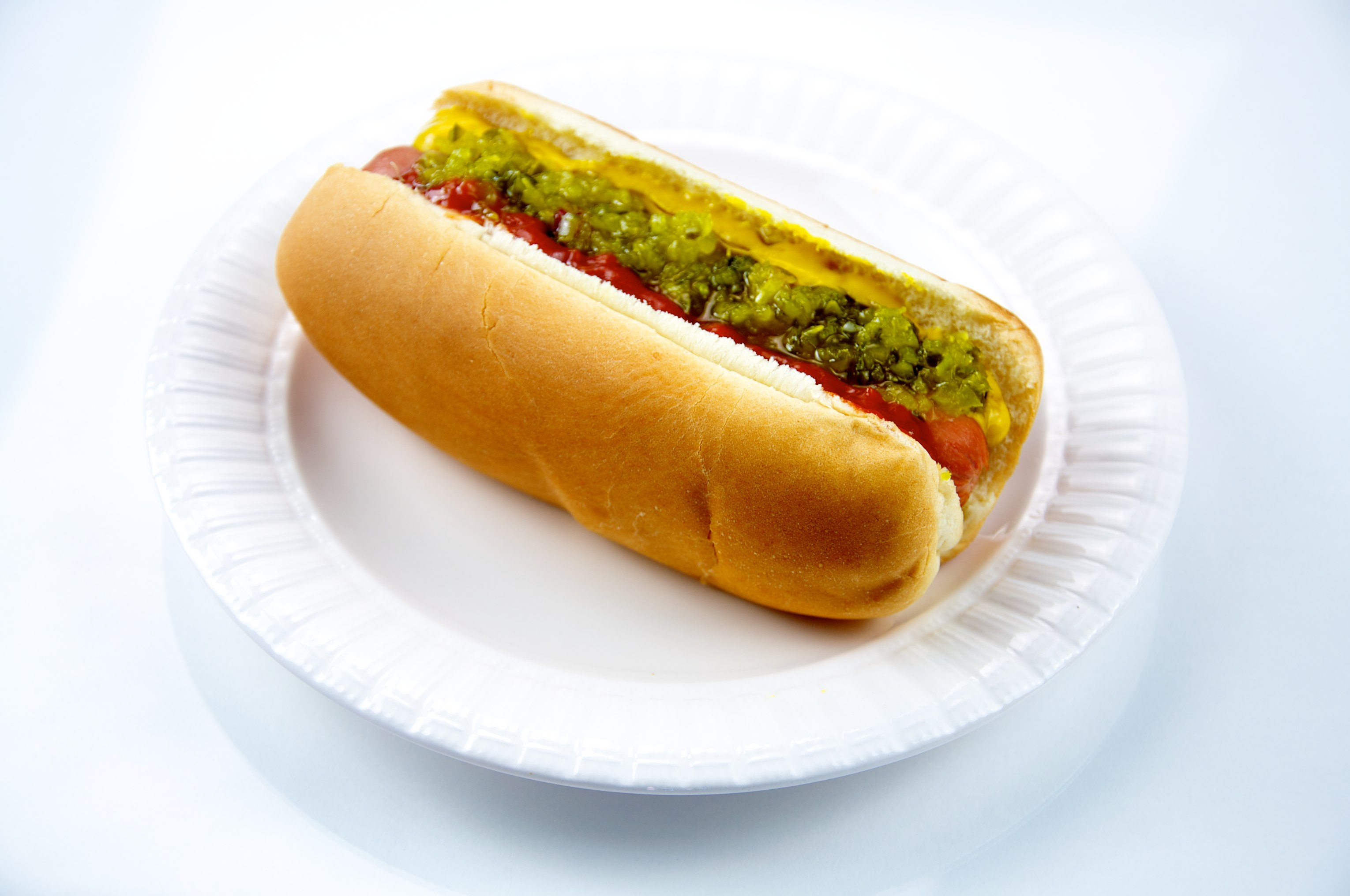 Hot Dog on a Plate.